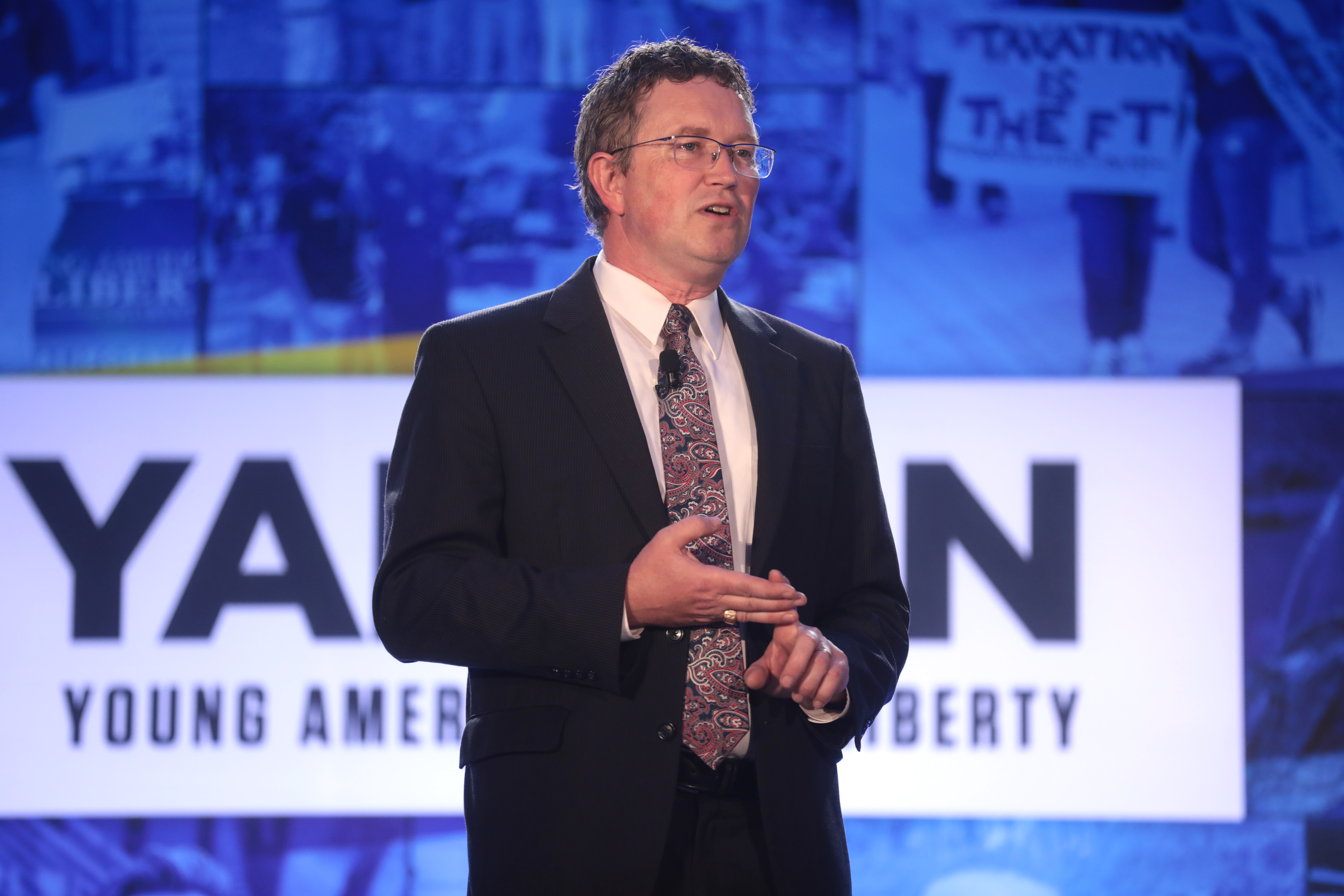 U.S. Congressman Thomas Massie speaking with attendees at the 2019 Young Americans for Liberty Convention at the Philadelphia Airport Marriott in Philadelphia, Pennsylvania.